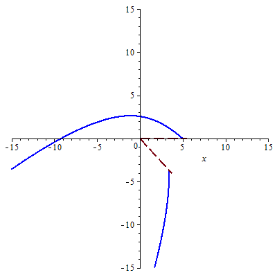 Example of generalized conic in the sense in which the term was used by Tom M. Apostol and Mamikon A. Mnatsakanian in their study of curves drawn on the surfaces of right circular cones. Parameter values: r_0=5, lambda=1, k=1.15